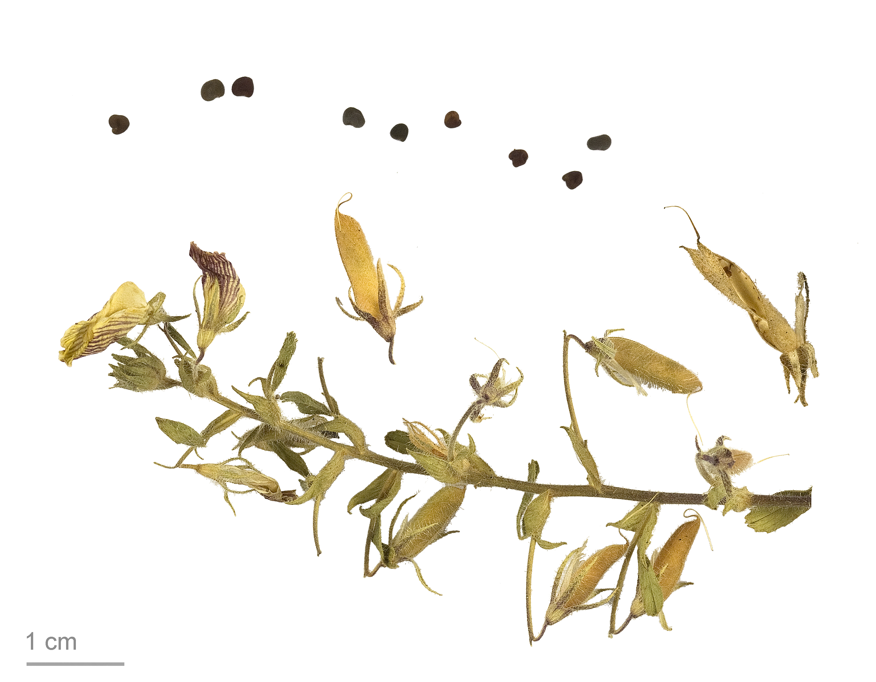 Ononis natrix , fruits and seeds